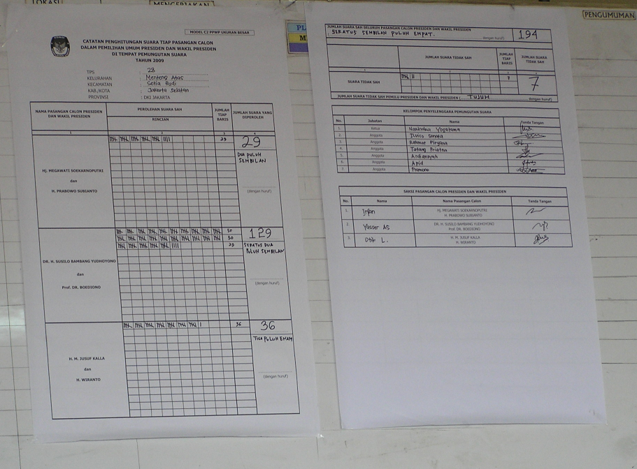 Results of the 2009 Indonesian Presidential election displayed at a polling station immediately after the count of the votes cast there